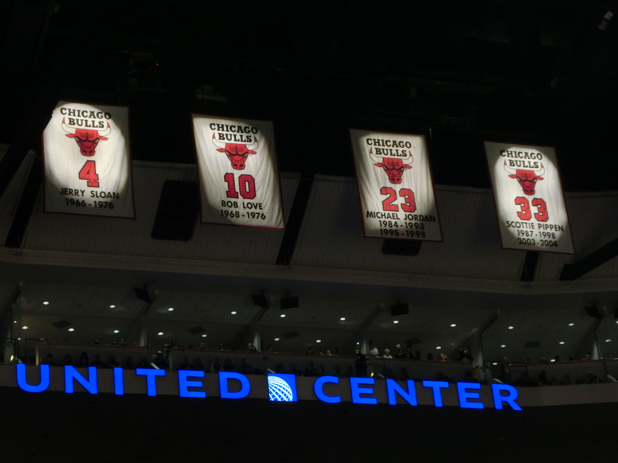 Chicago Bulls retired numbers at the United Center on January 26, 2012